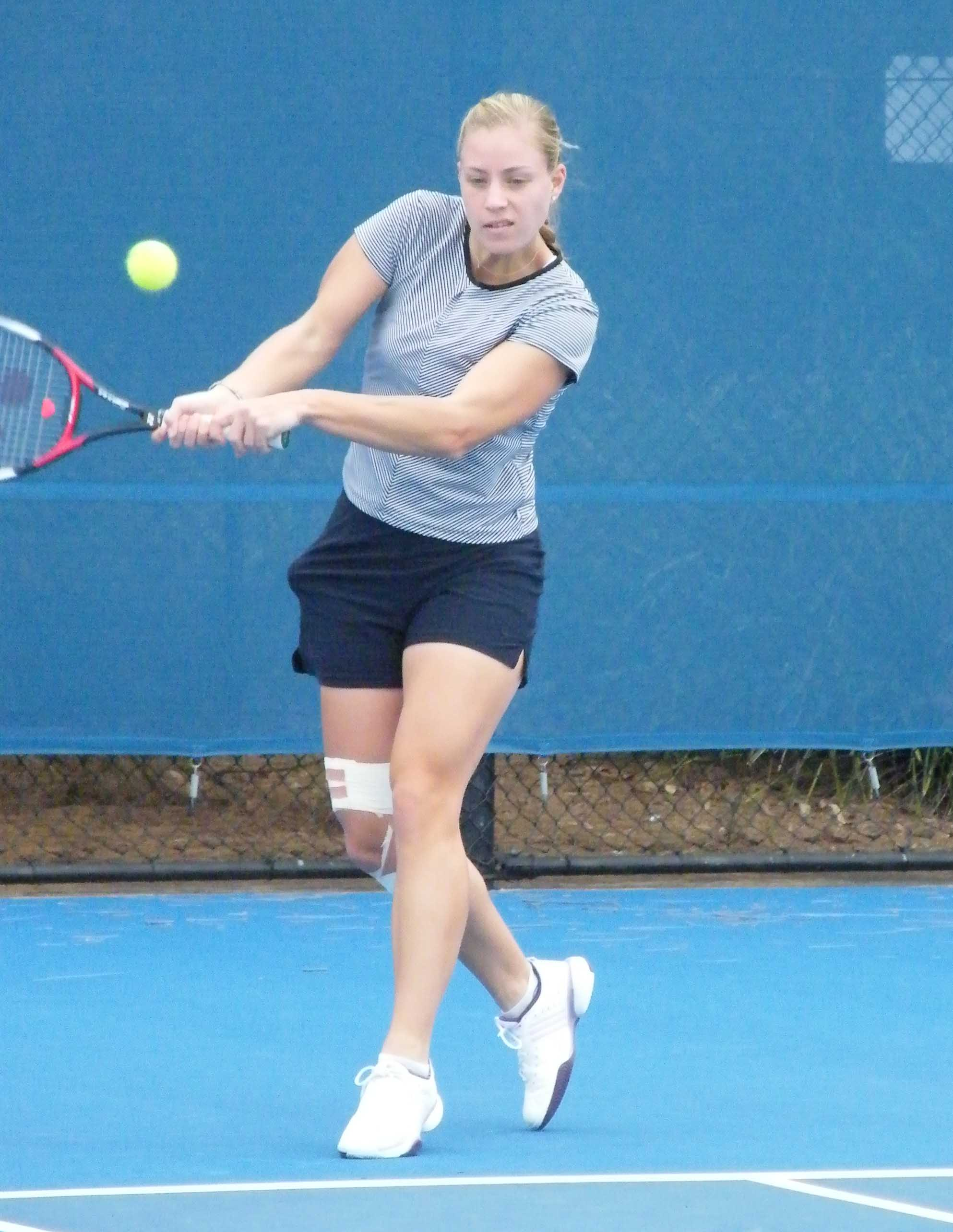 Angelique Kerber of Germany - NSW Tennis Open, January 2009.